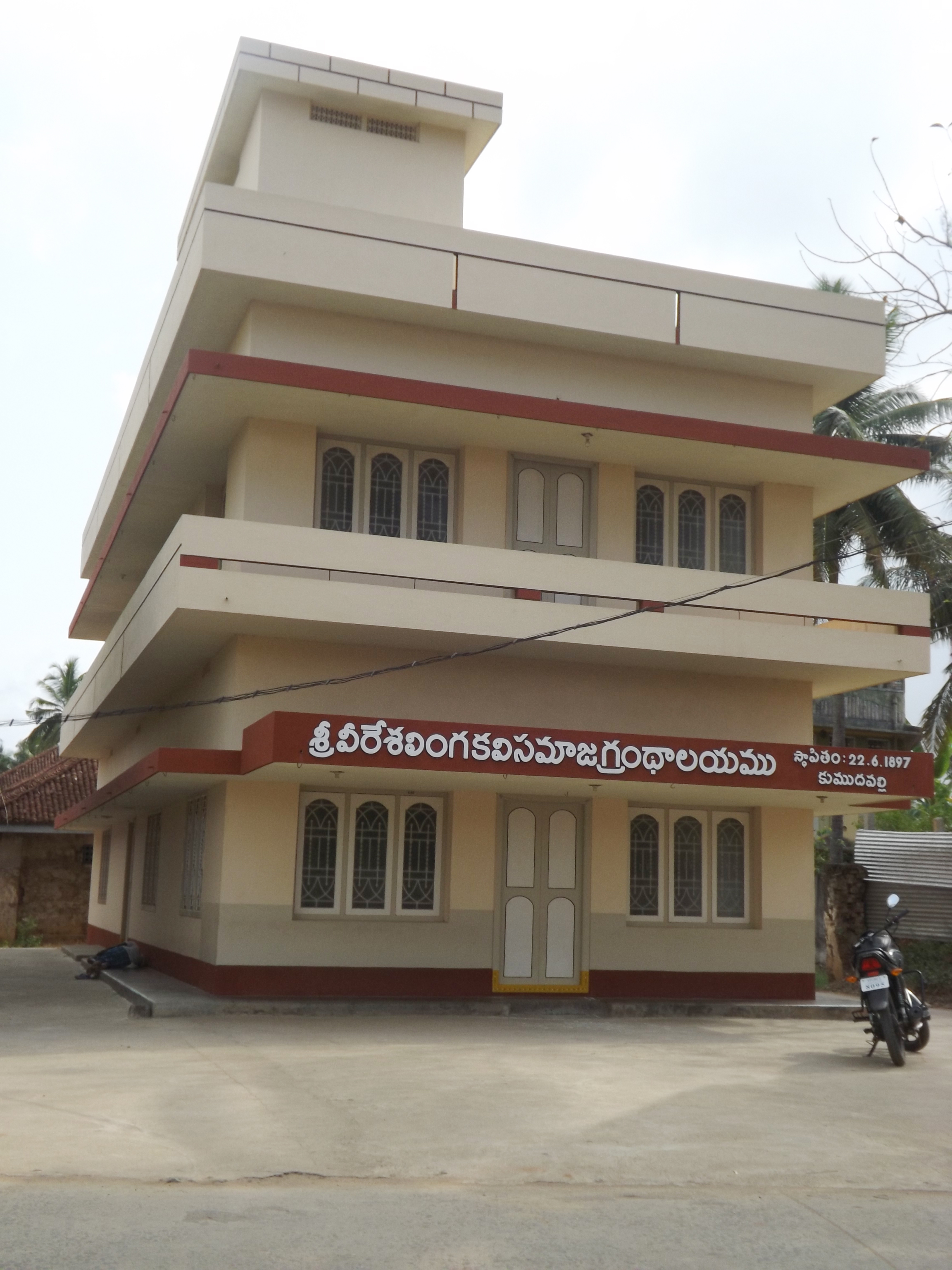 Sri Veeresalinga Kavi Samaja Library of Kumudavalli, Andhrapradesh